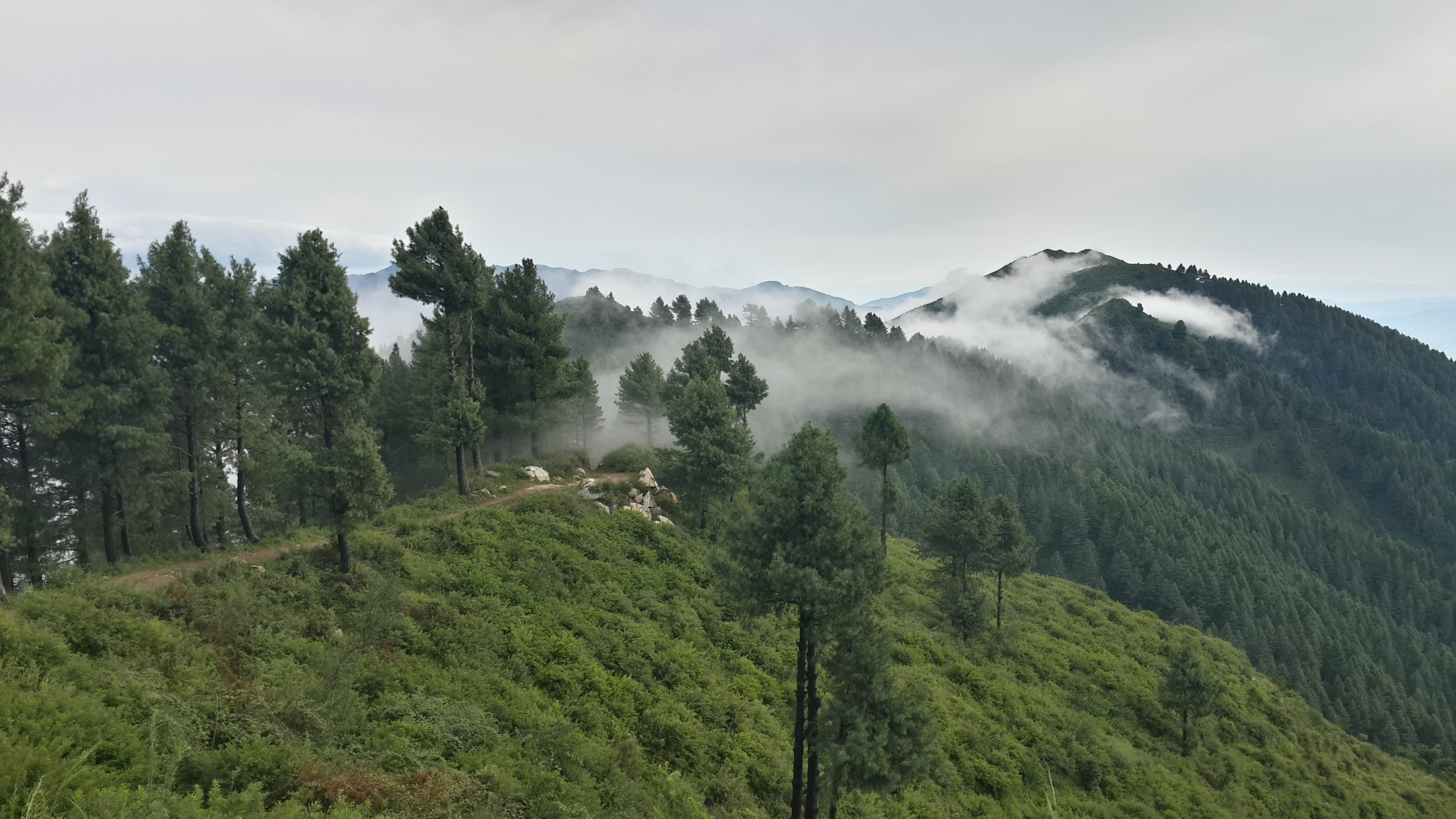 Lajbouk (Lajbook) area in Lower Dir District, KPK, Pakistan.